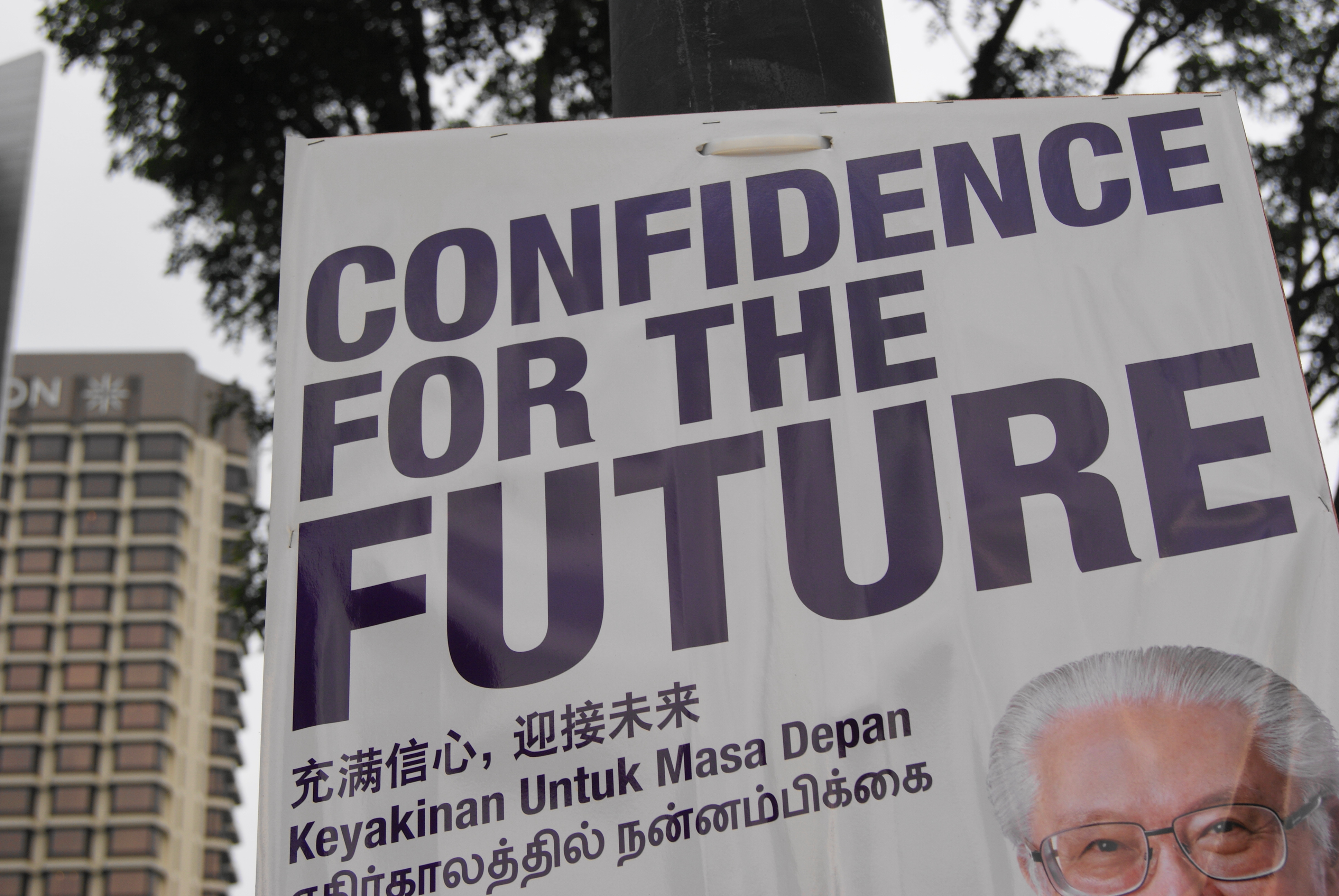 Part of an English poster of Tony Tan Keng Yam, who was elected as President during the Singaporean presidential election, 2011, along Bras Basah Road.